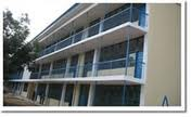 Classroom